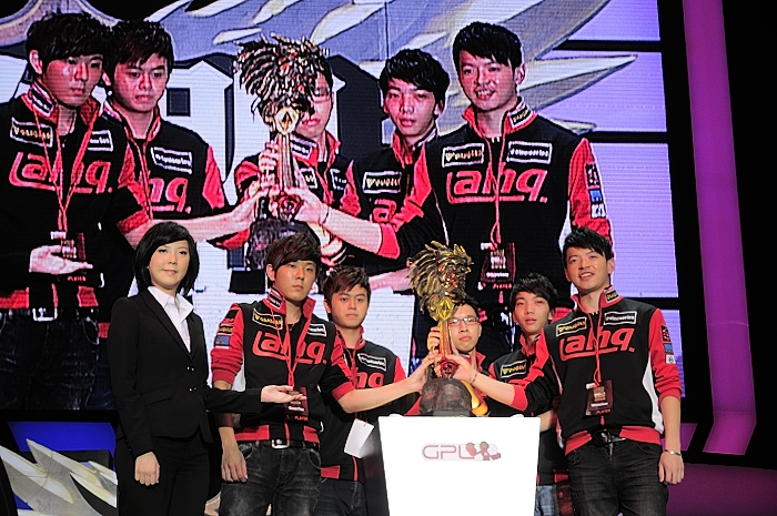 GPL-s3-arena